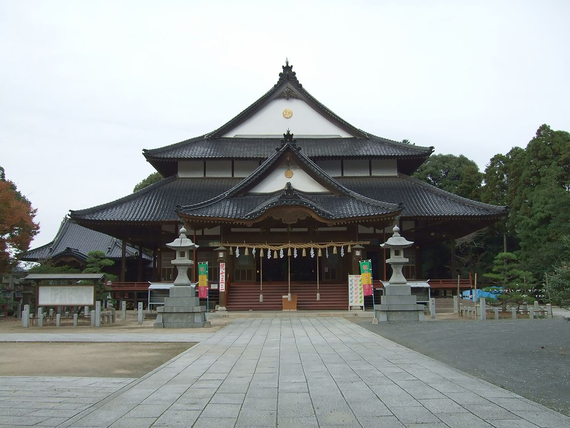 Shinrikyo main shrine